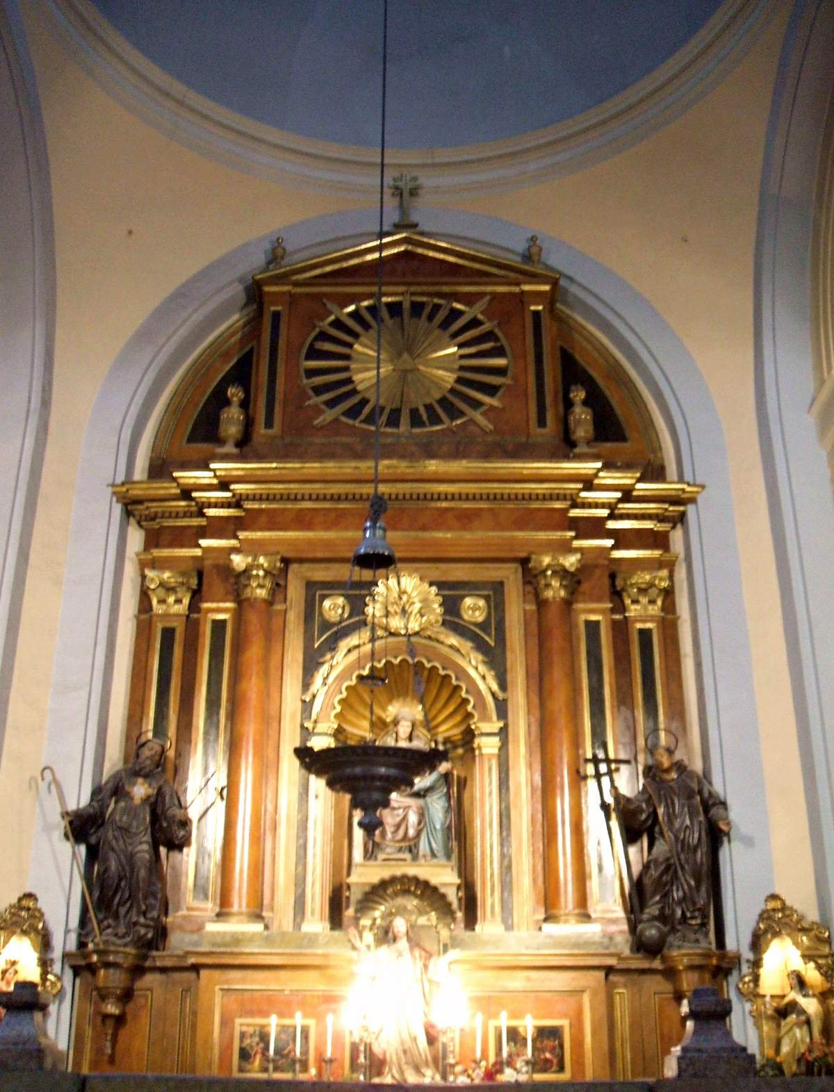 Capilla de Santa Ana, Basílica del Pilar de Zaragoza